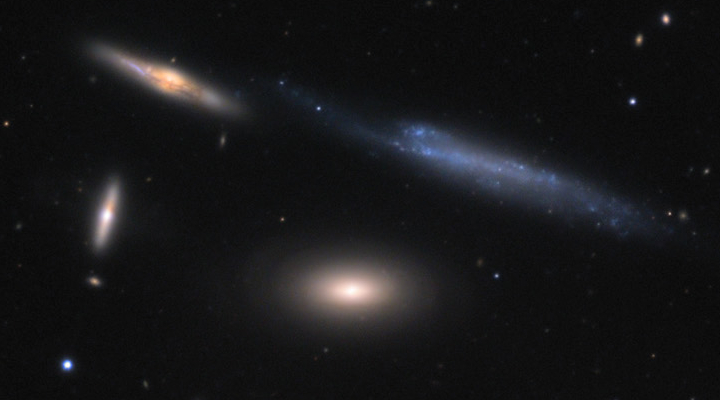 crop